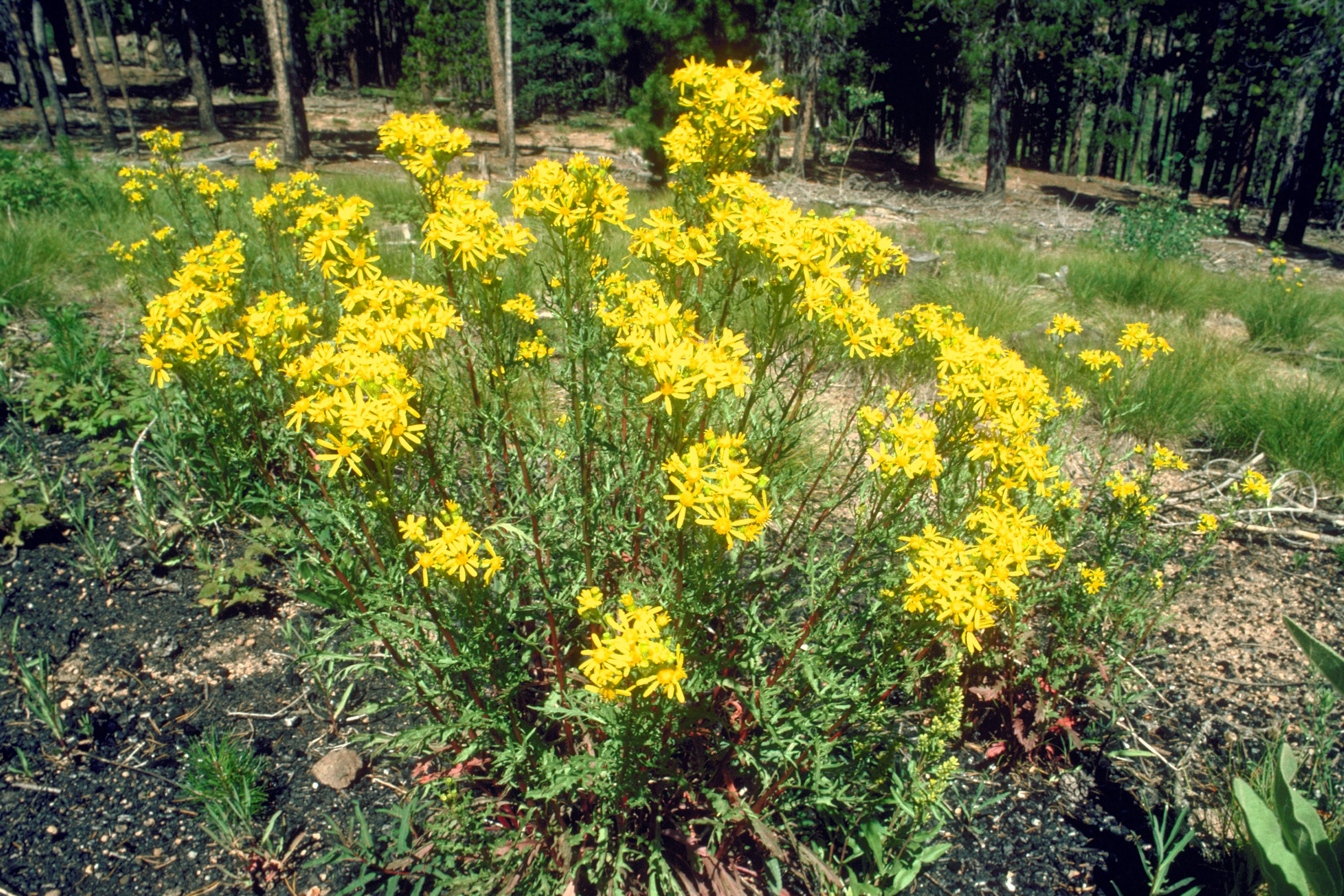 Senecio eremophilus Richards (desert ragwort). Single flowering plant in typical habitat United States.